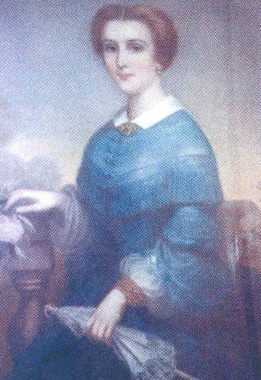 Portrait of Arcadie Claret, King Leopold of Belgium's lover, created Baroness of Eppinghoven by the King's nephew, Ernest II of Saxe-Coburg & Gotha. She is the ancestor of Baronets of Eppinghoven, illegitimate and youngest branch of the Royal House of Belgium